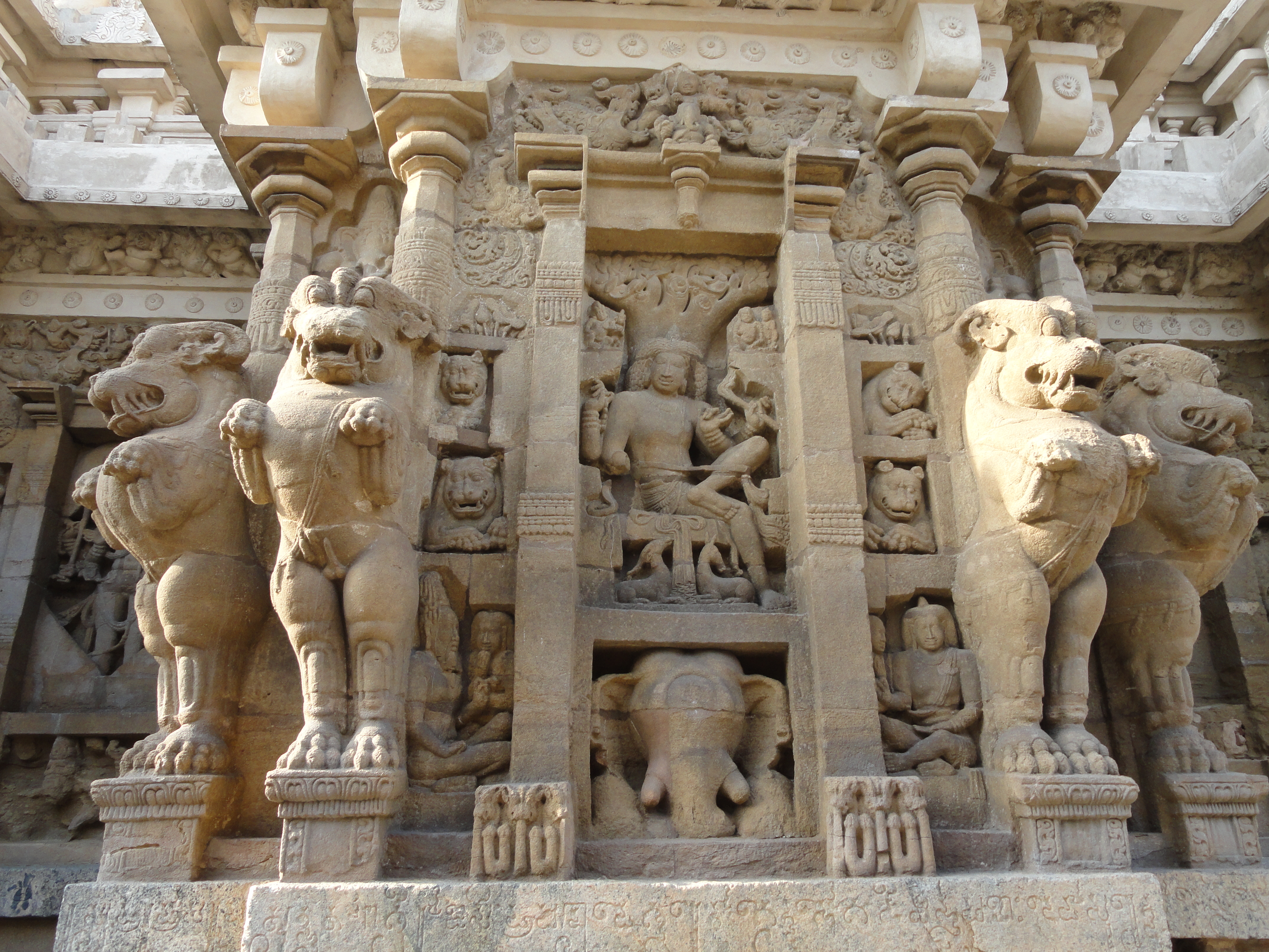 Kailasanathar Temple